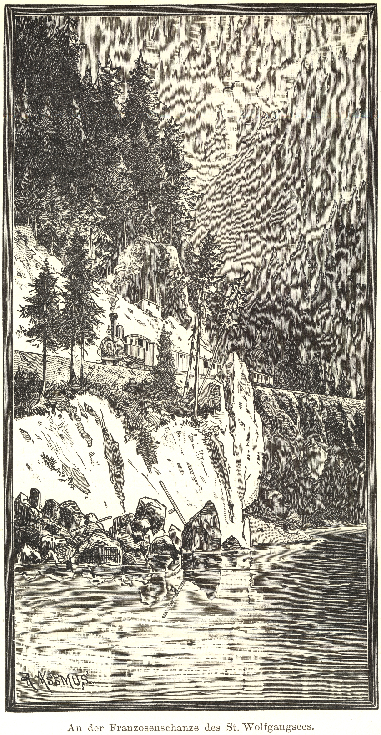 Artist's view of a Salzkammergut-Lokalbahn train at the Franzosenschanze on lake Wolfgangsee